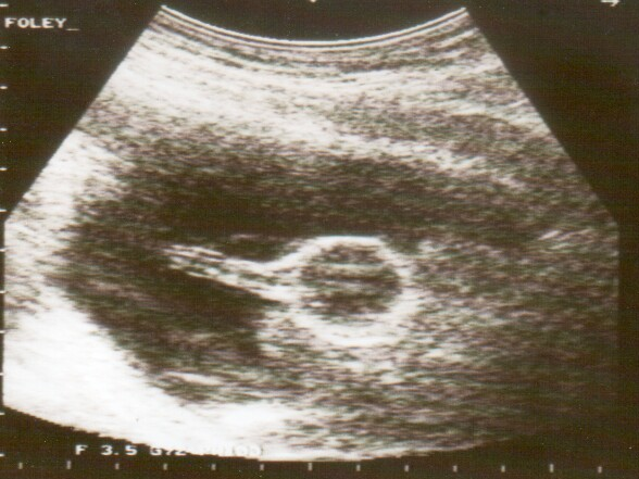 Ultrasound scan. Foley in urinary bladder.